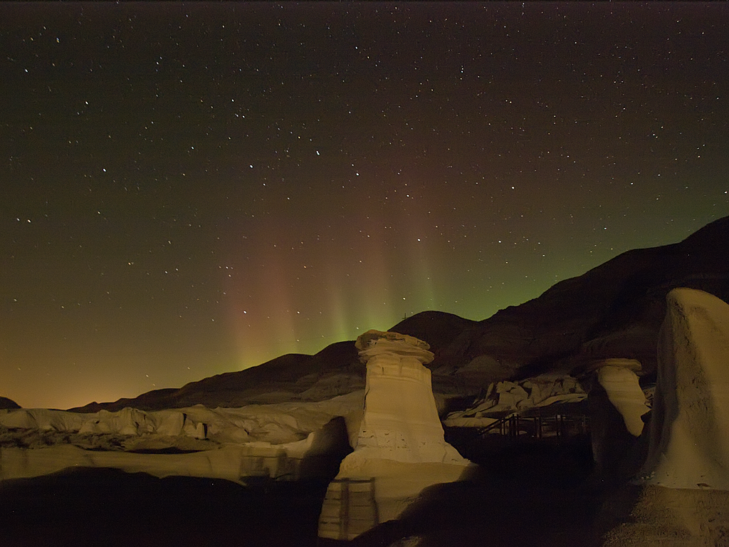 Hoodoos and aurora in Drumheller, Alberta. A geological formation of white sandstone cap rocks overlying dark brown marine shale bodies.